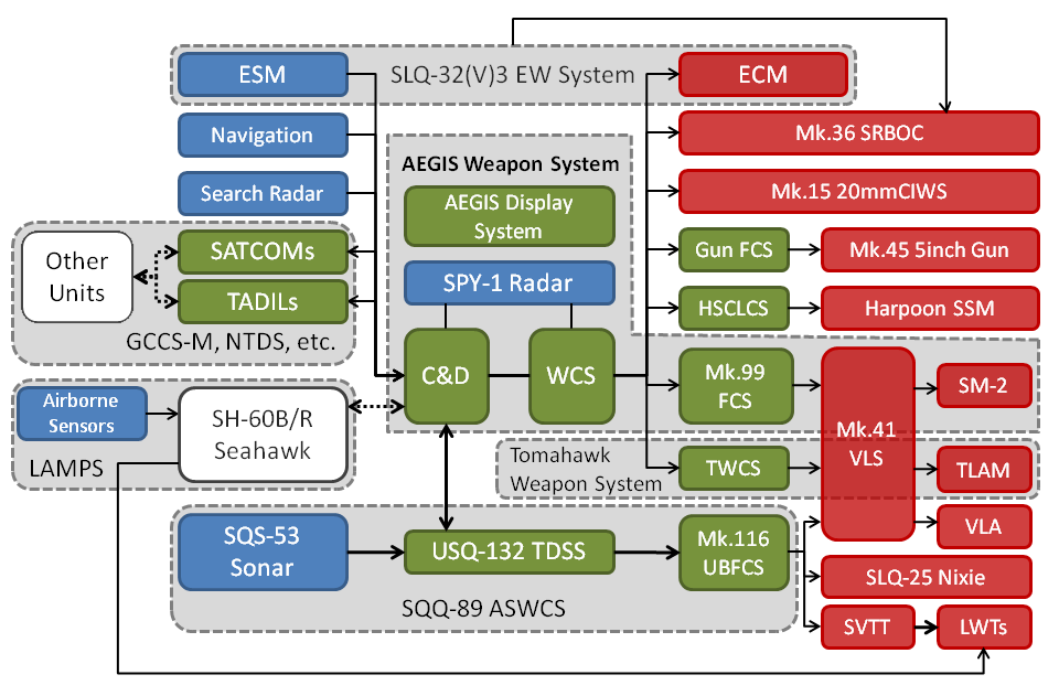 Configuration of the Aegis Combat System. References below. 大熊康之 (2006) 軍事システム エンジニアリング, かや書房 ISBN: 4-906124-63-1.